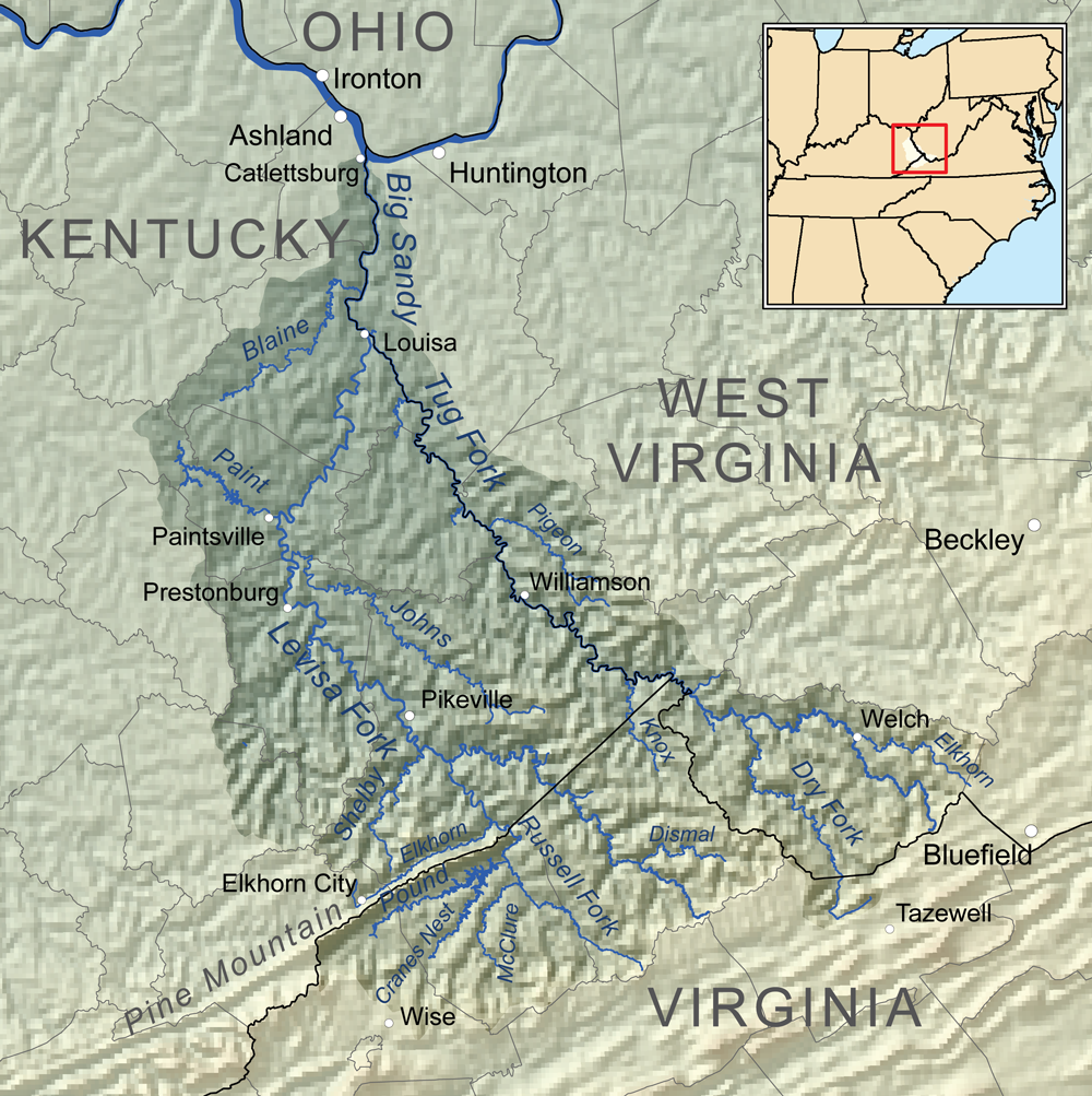 Map of the Big Sandy River drainage basin.